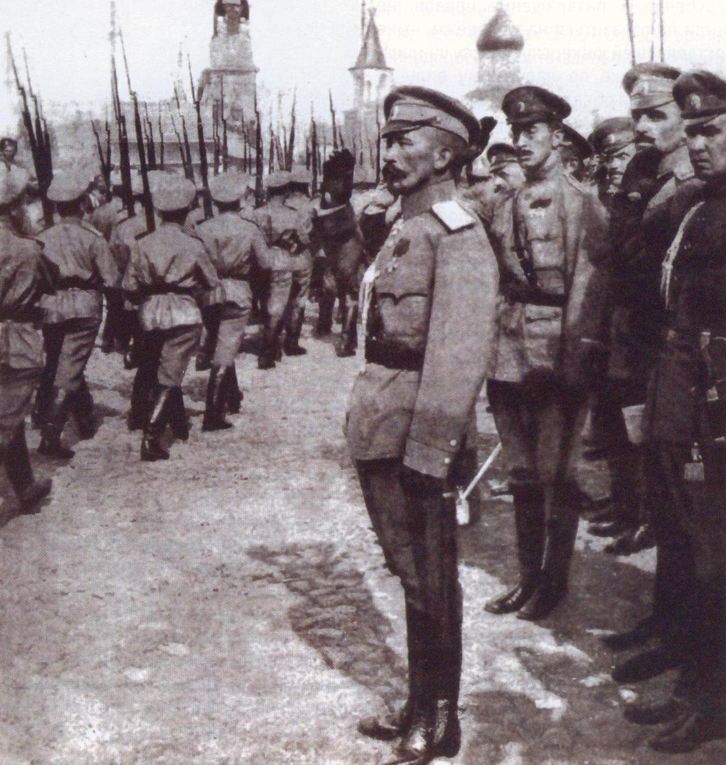 Yunkers, meeting Commander-in-Chief, pass marching by general Lavr Kornilov